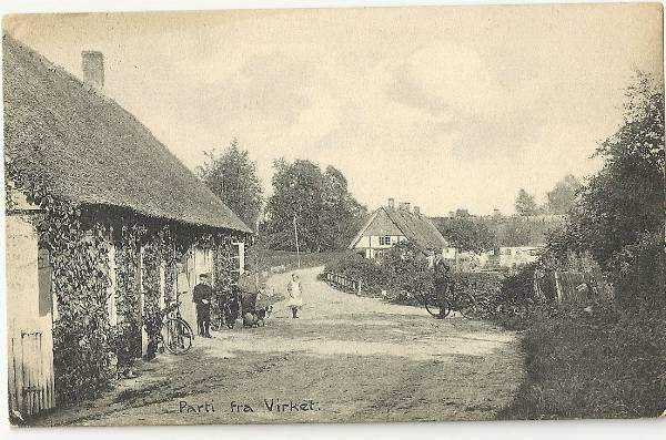 Old photograph of the village of Virket on the Danish island of Falster